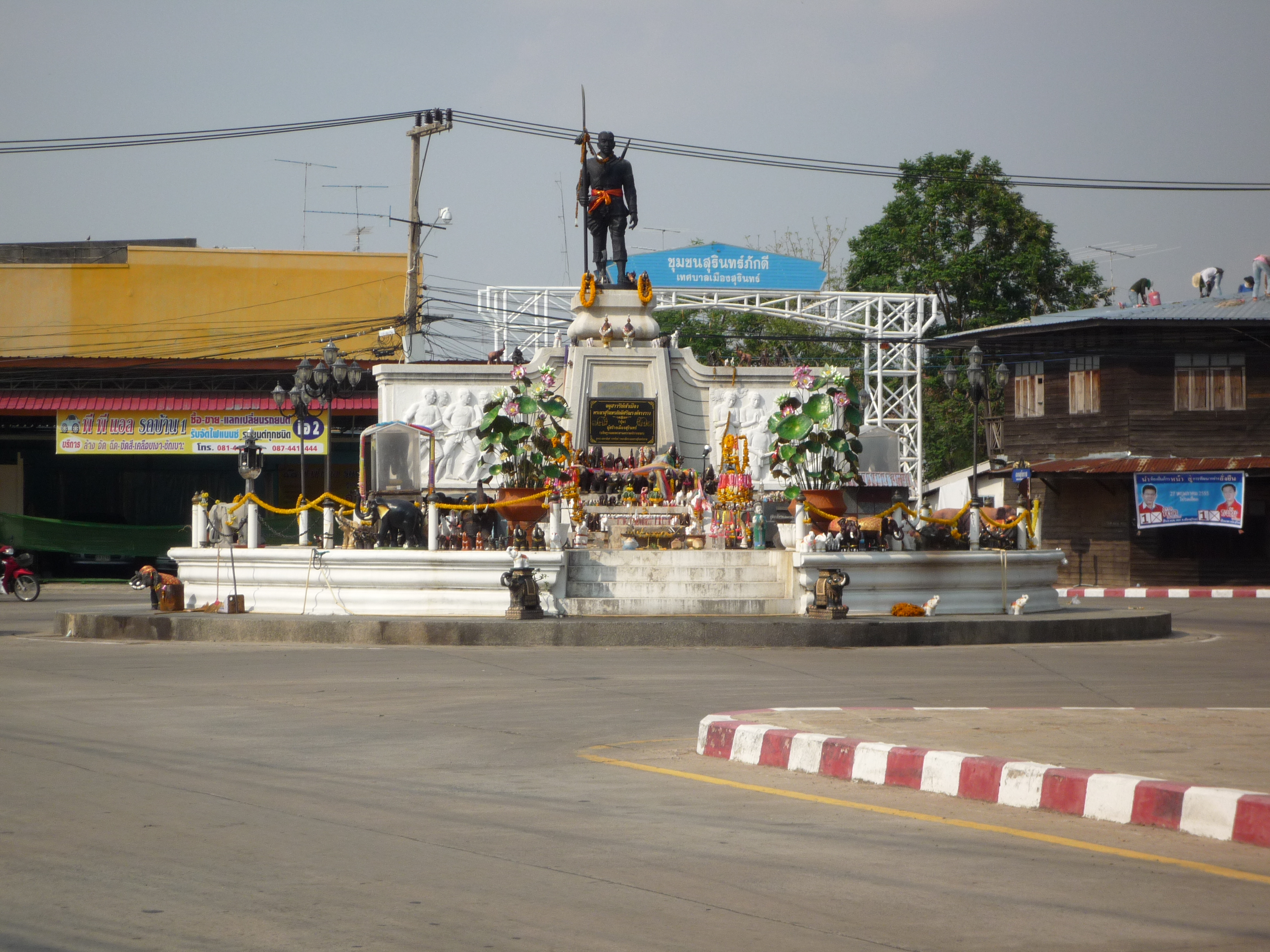 Surin City